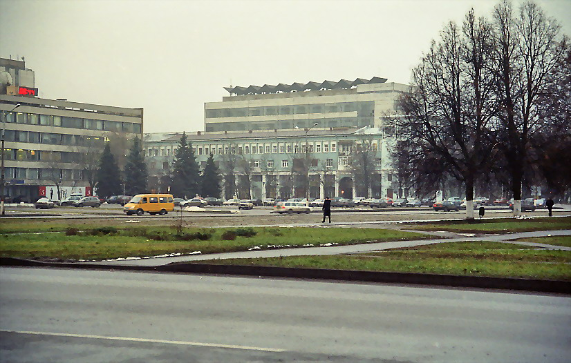 TsAGI and NIIP